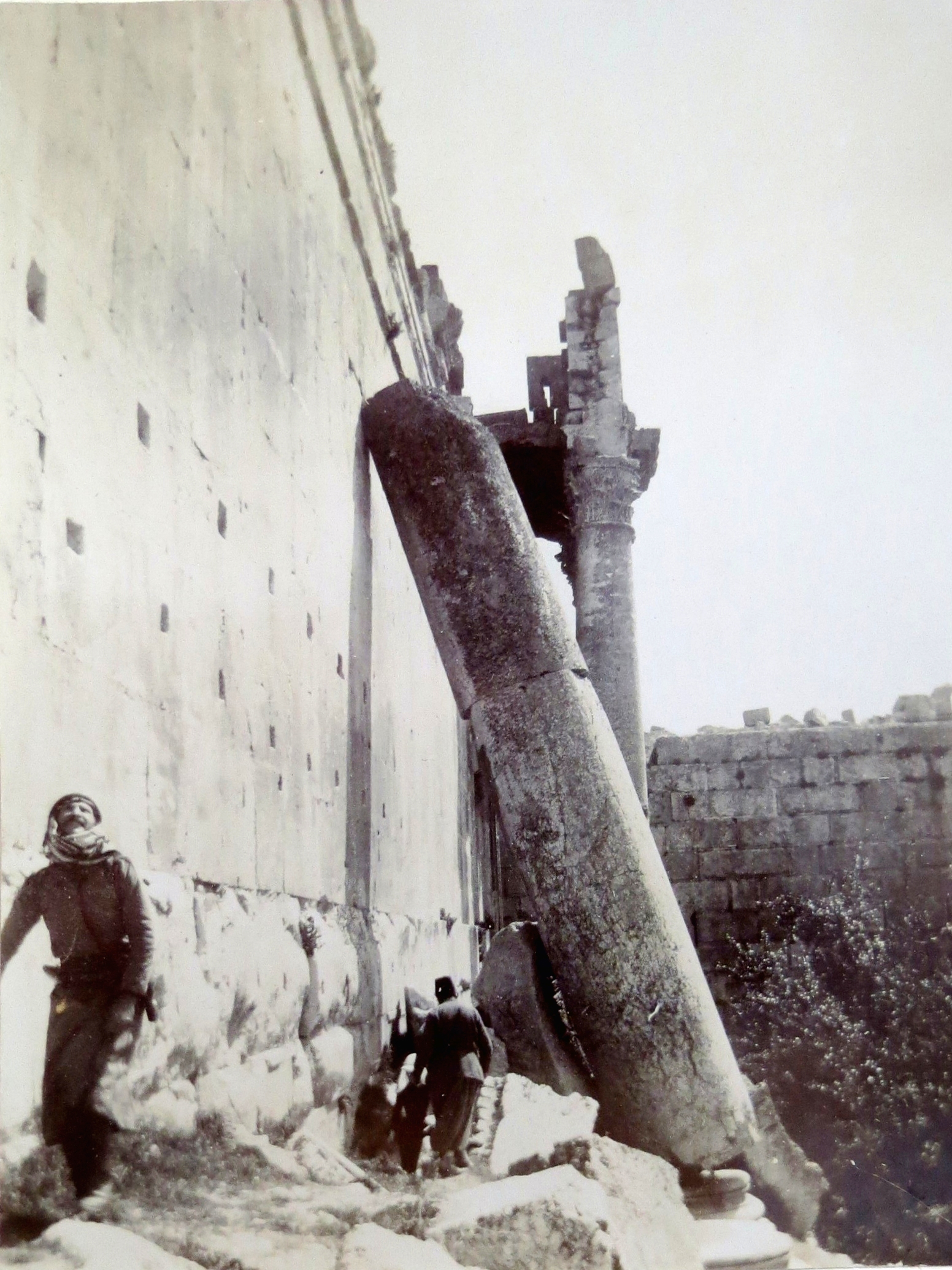 Dragoman Joseph Shaar, Temple of Jupiter, Baalbek, 1891. From original silver print in book titled: "A Month in Palestine and Syria, April 1891," (author unknown). Original 19th century book in the possession of Kimberly Blaker, New Boston Fine and Rare Books.